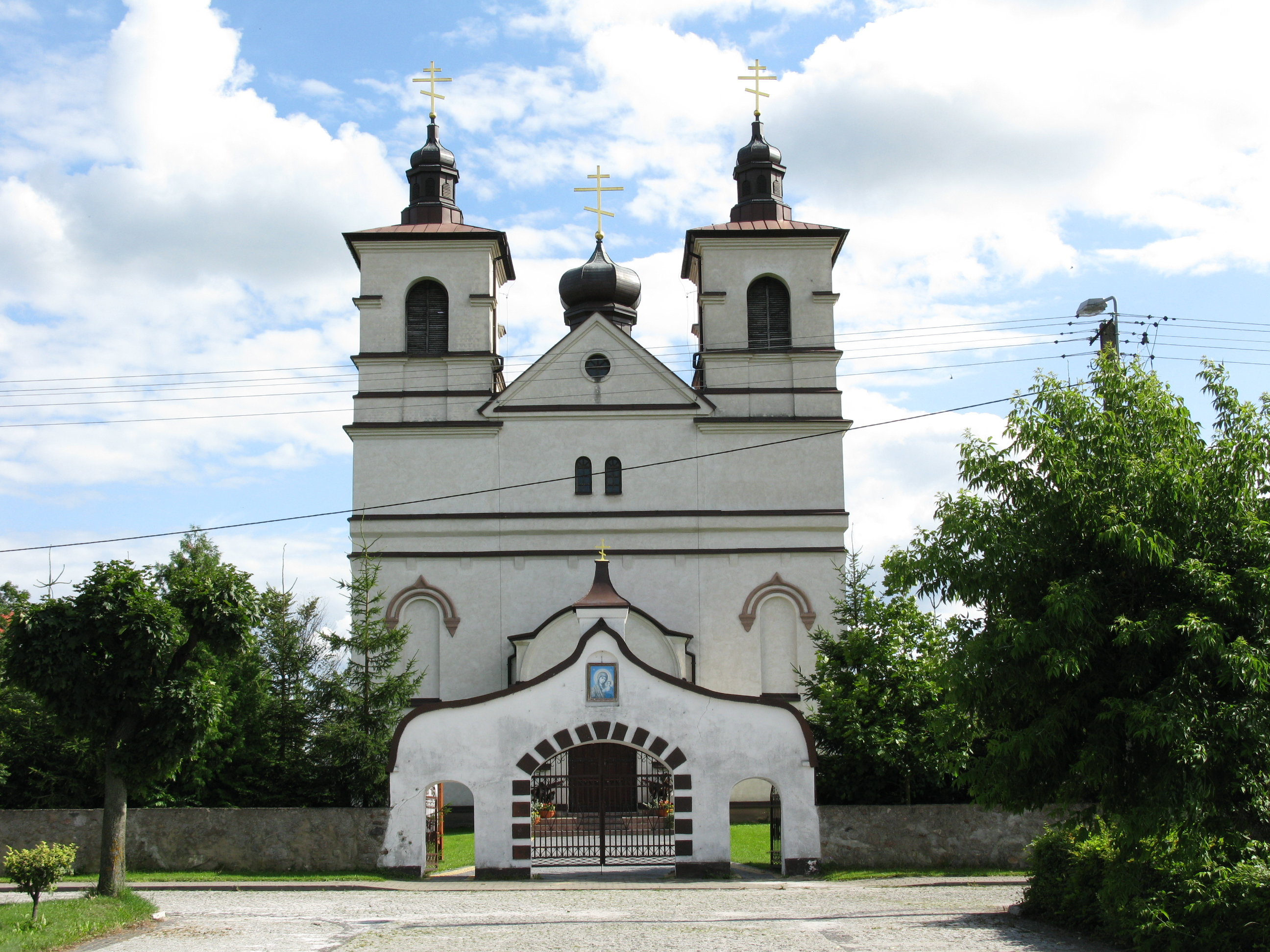 Church of the Dormition in Boćki (Podlaskie, Poland).